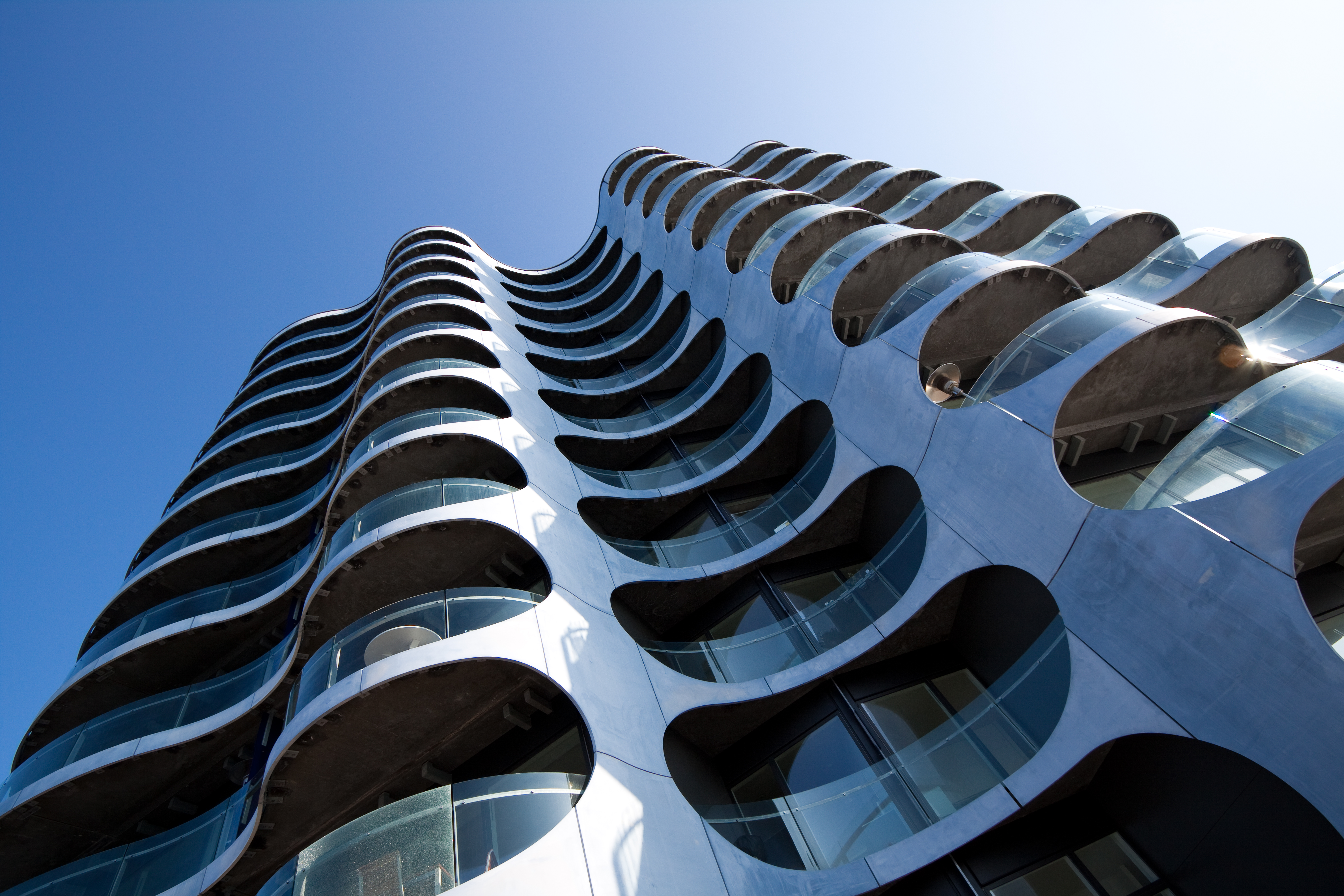 View up the facade of the Metropolis building at Sluseholmen in the Southern Docklands of Copenhagen, Denmark